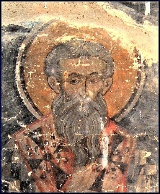 Saint_Nicholas_Church in Vogatsiko_Fresco